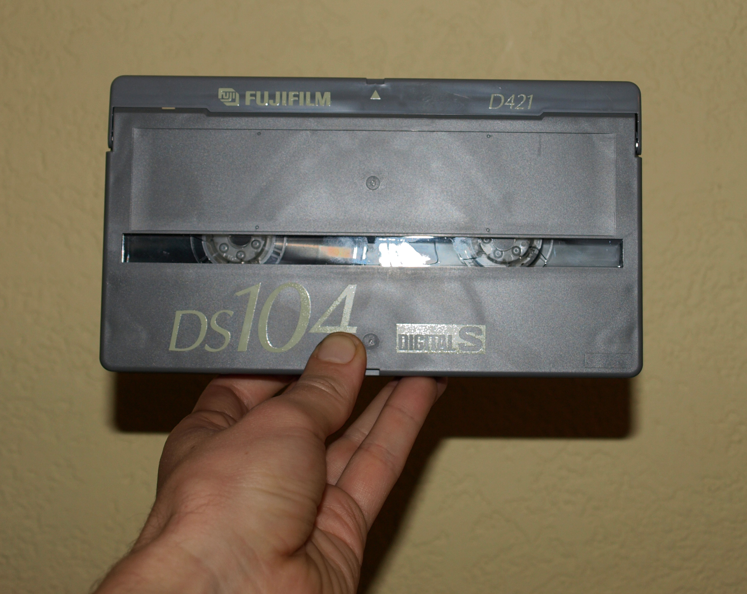 A photograph of a Fujifilm D-9 videotape.